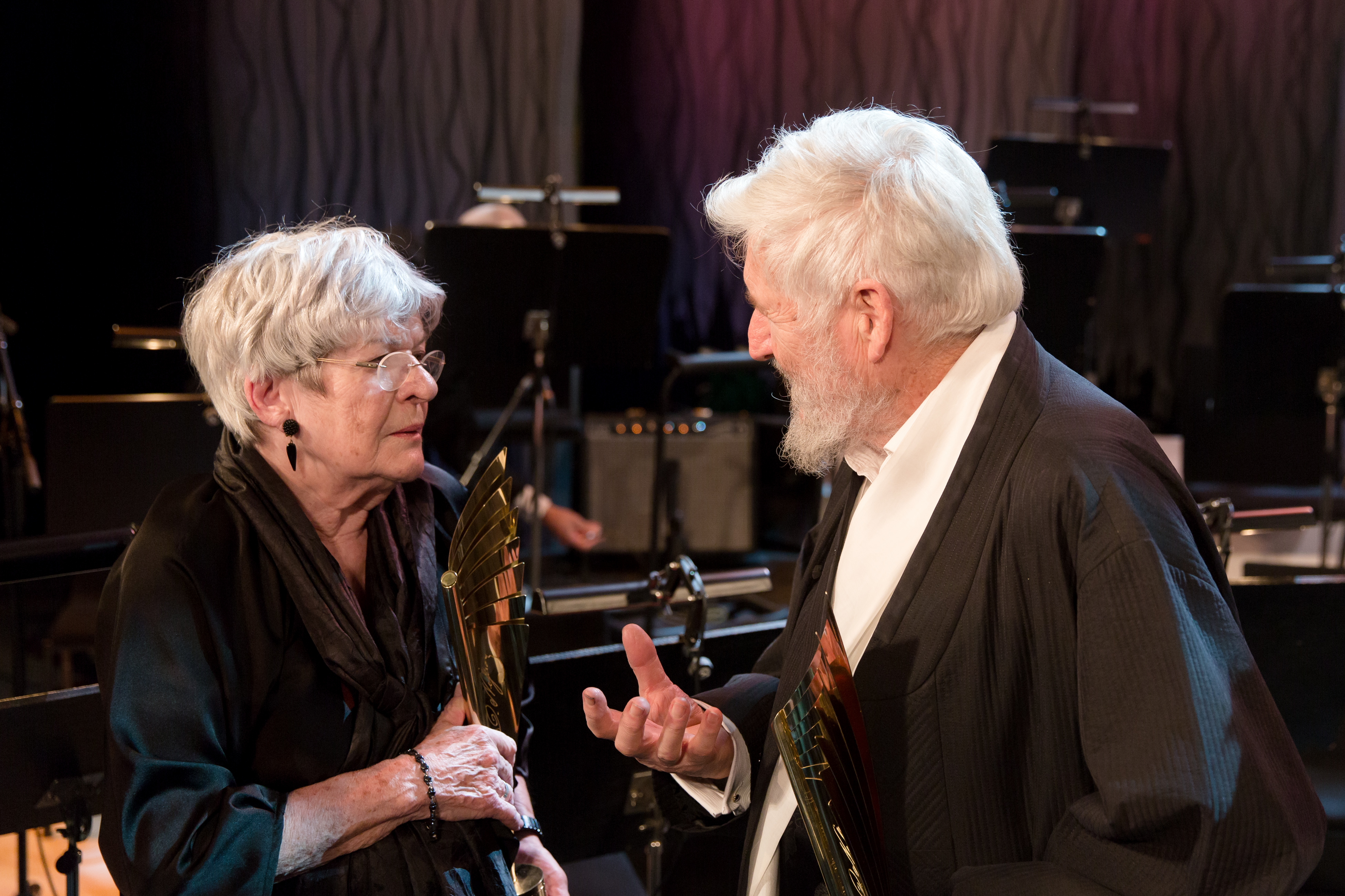 Elisabeth Orth at the Nestroy Theatre Awards 2015 (Ronacher, Vienna, Austria).